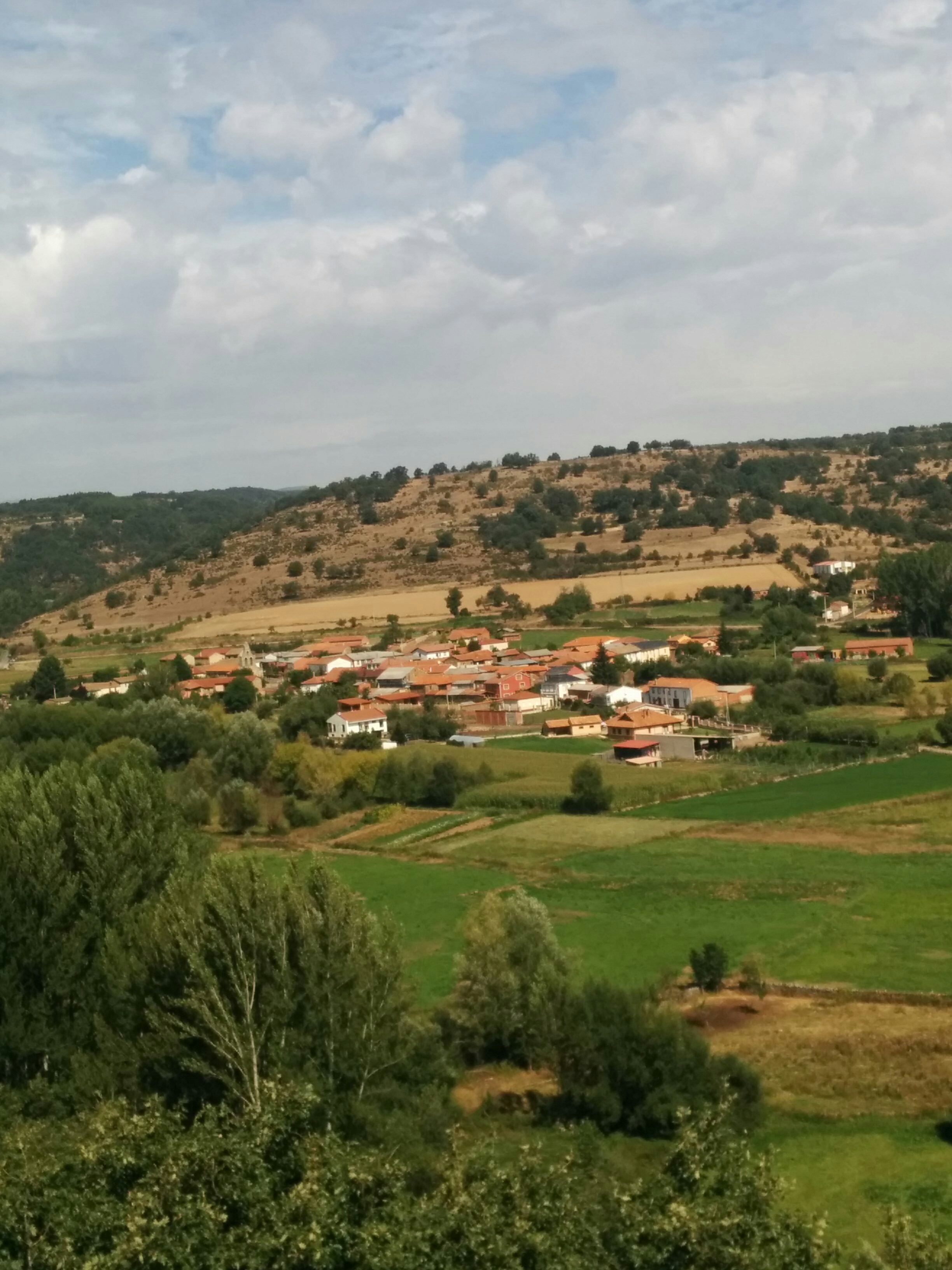 Vista de Santa María de Ordás, León, España, dese la torre de Ordás